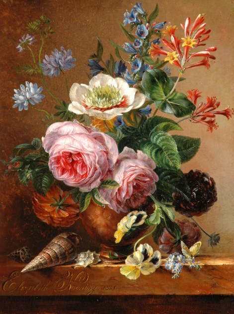 Flower still life on a marble slab